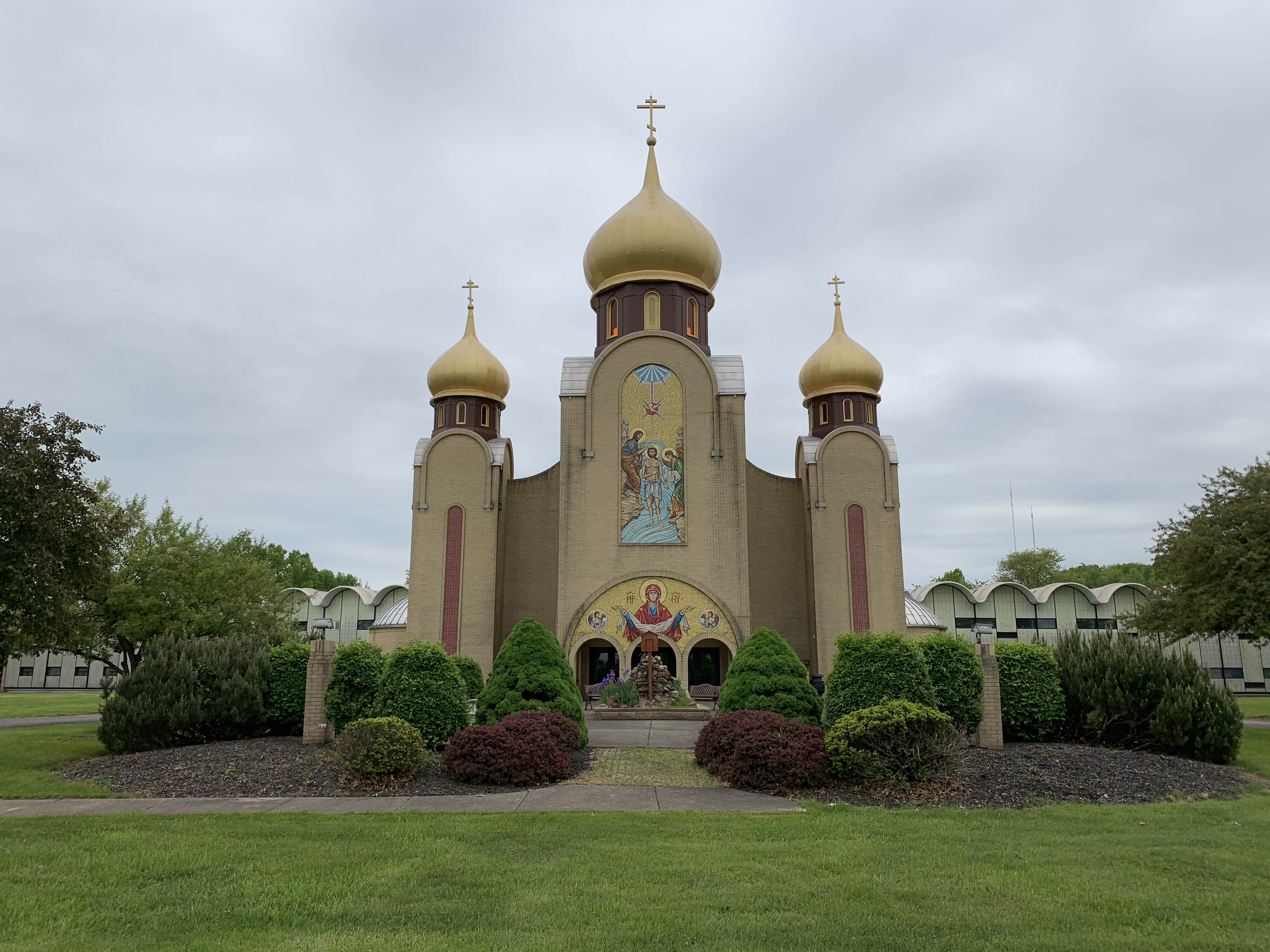 View from Snow Road of the Cathedral of St. John the Baptist in Parma OH in May 2019.